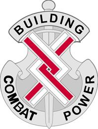 distinctive unit insignia of the 20th Engineer Brigade.